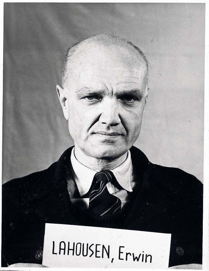 Erwin von Lahousen (25 October 1897 – 24 February 1955) at the Nuremberg Trials as a witness. Lahousen was a german Generalmajor and high-ranking Abwehr official during the Second World War, as well as a member of the German Resistance and a key player in attempts to assassinate Adolf Hitler on 13 March 1943 and 20 July 1944